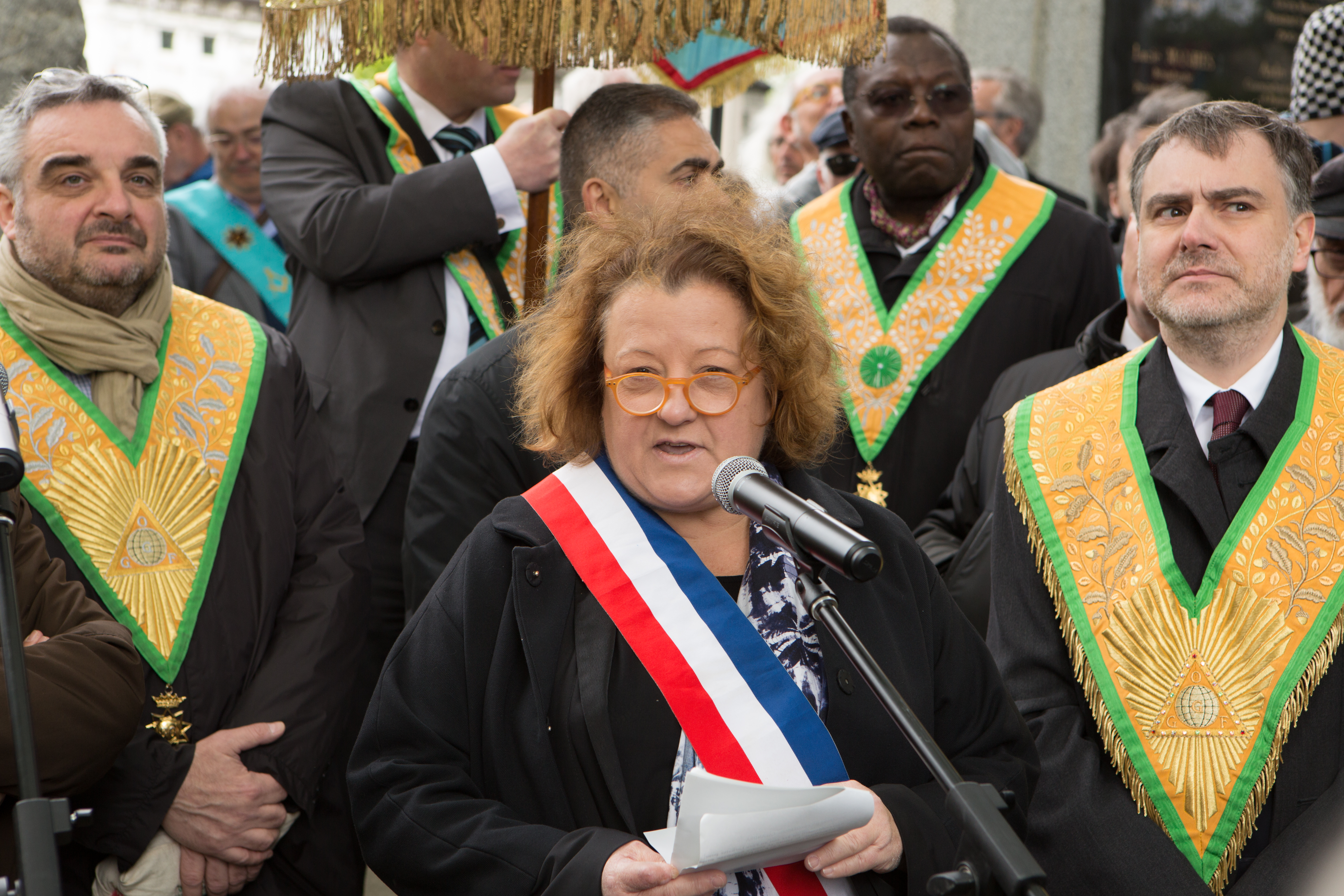 Procession of Freemasons at the Père Lachaise cemetery May 1st 2017. Frédérique Calandra.